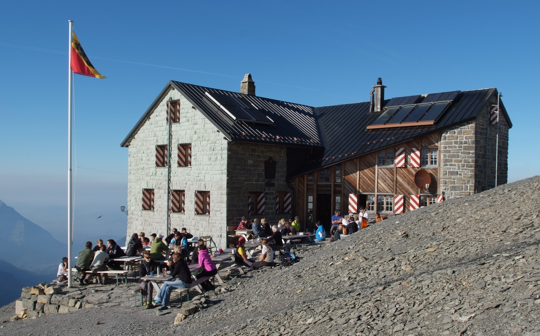 Blüemlisalp hut, 2834m